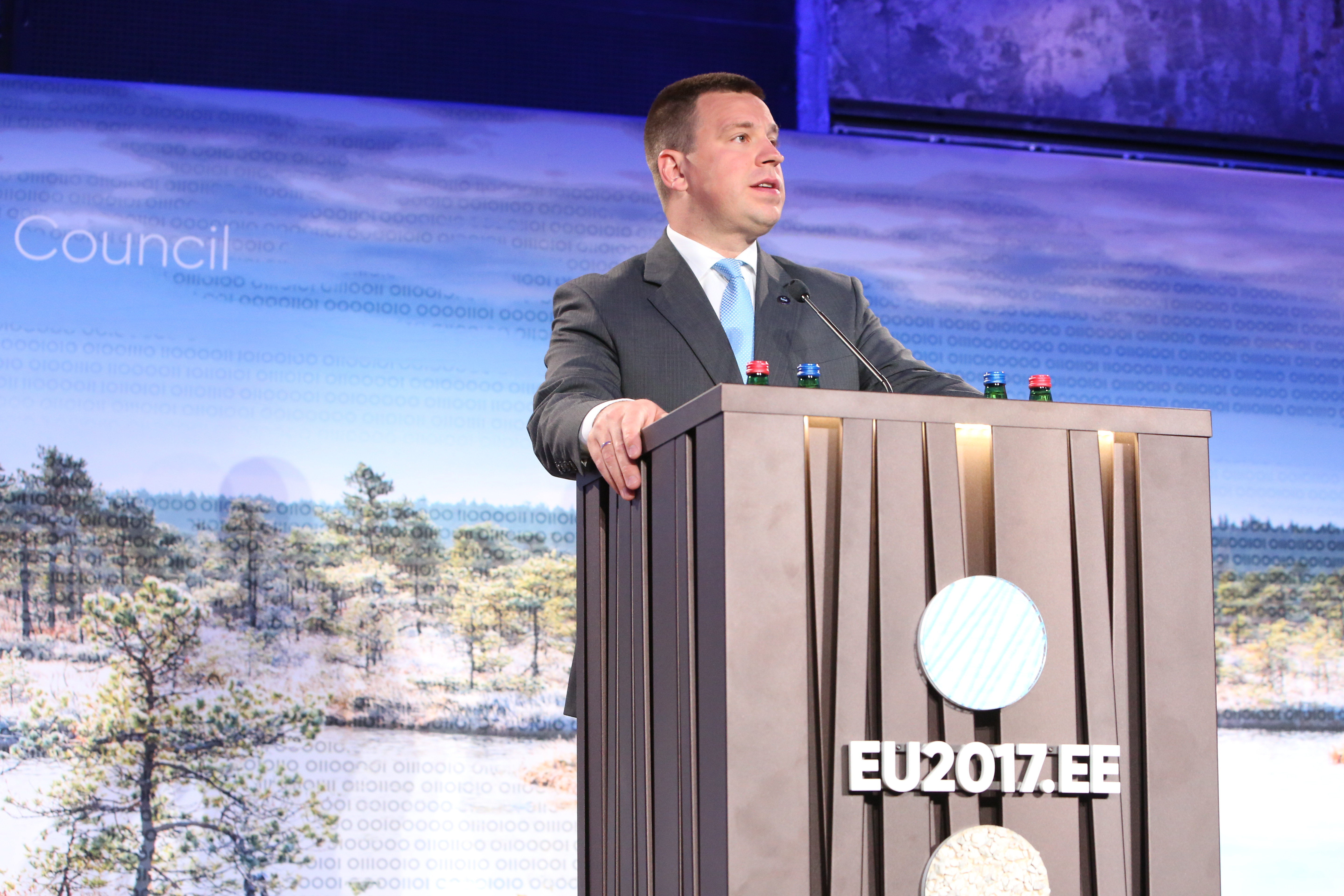 Jüri Ratas, Prime Minister of Estonia